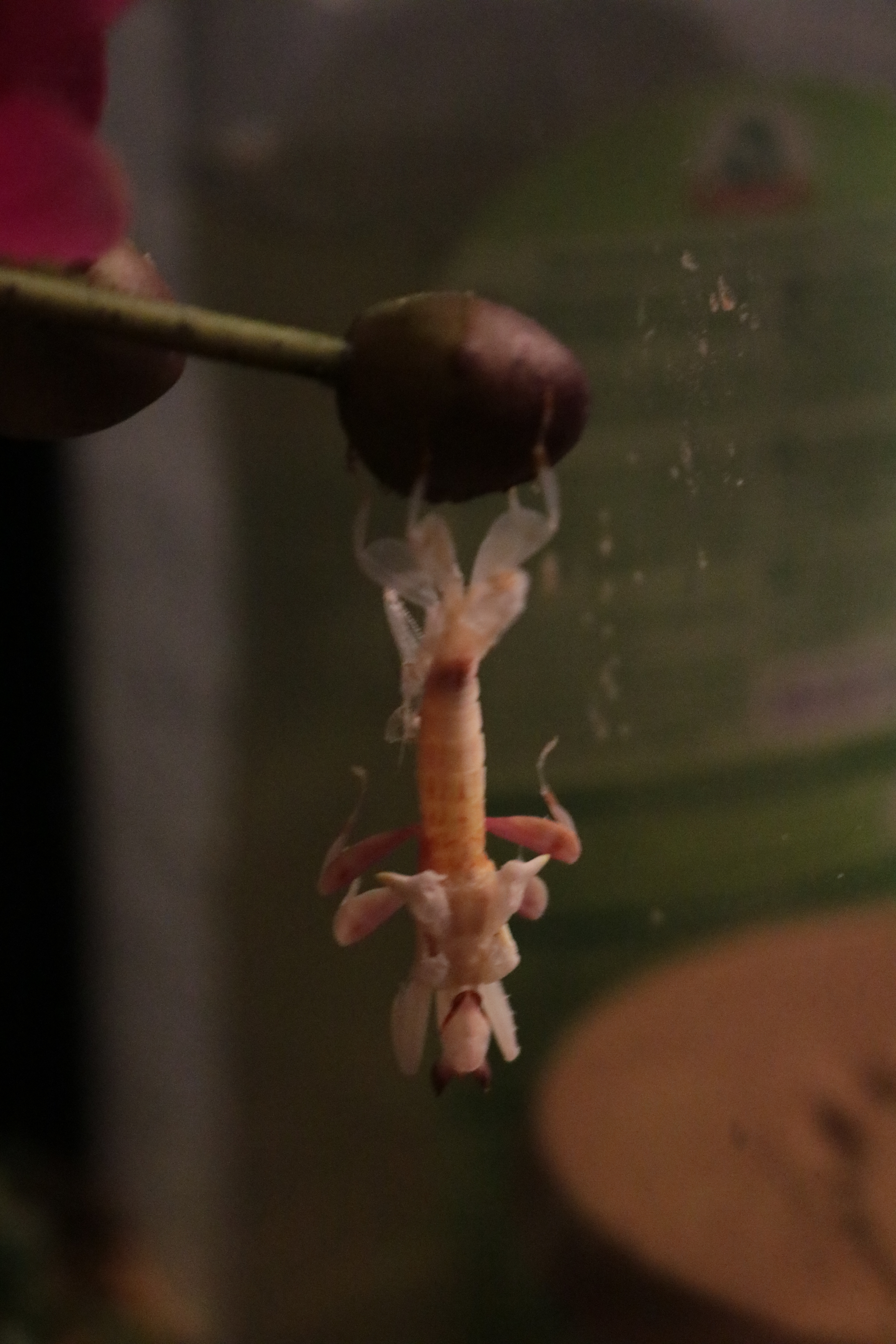 Hymenopus coronatus, male doing it's final molt.